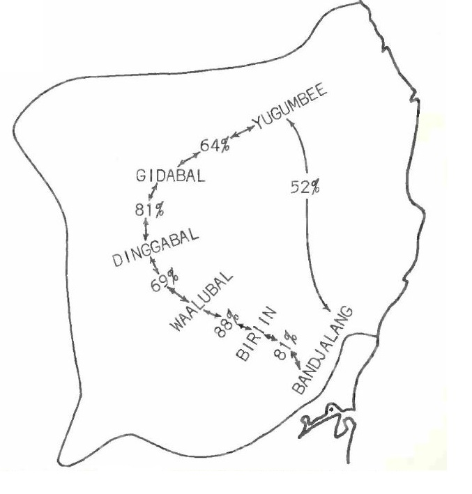 Outline of Bandjalangic branch area with some dialects and cognate percentages.